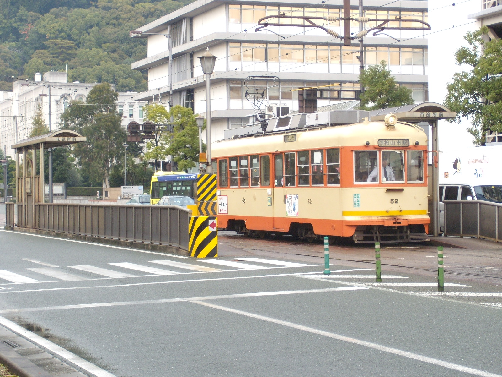 Iyo railway Shiyakusho-mae station